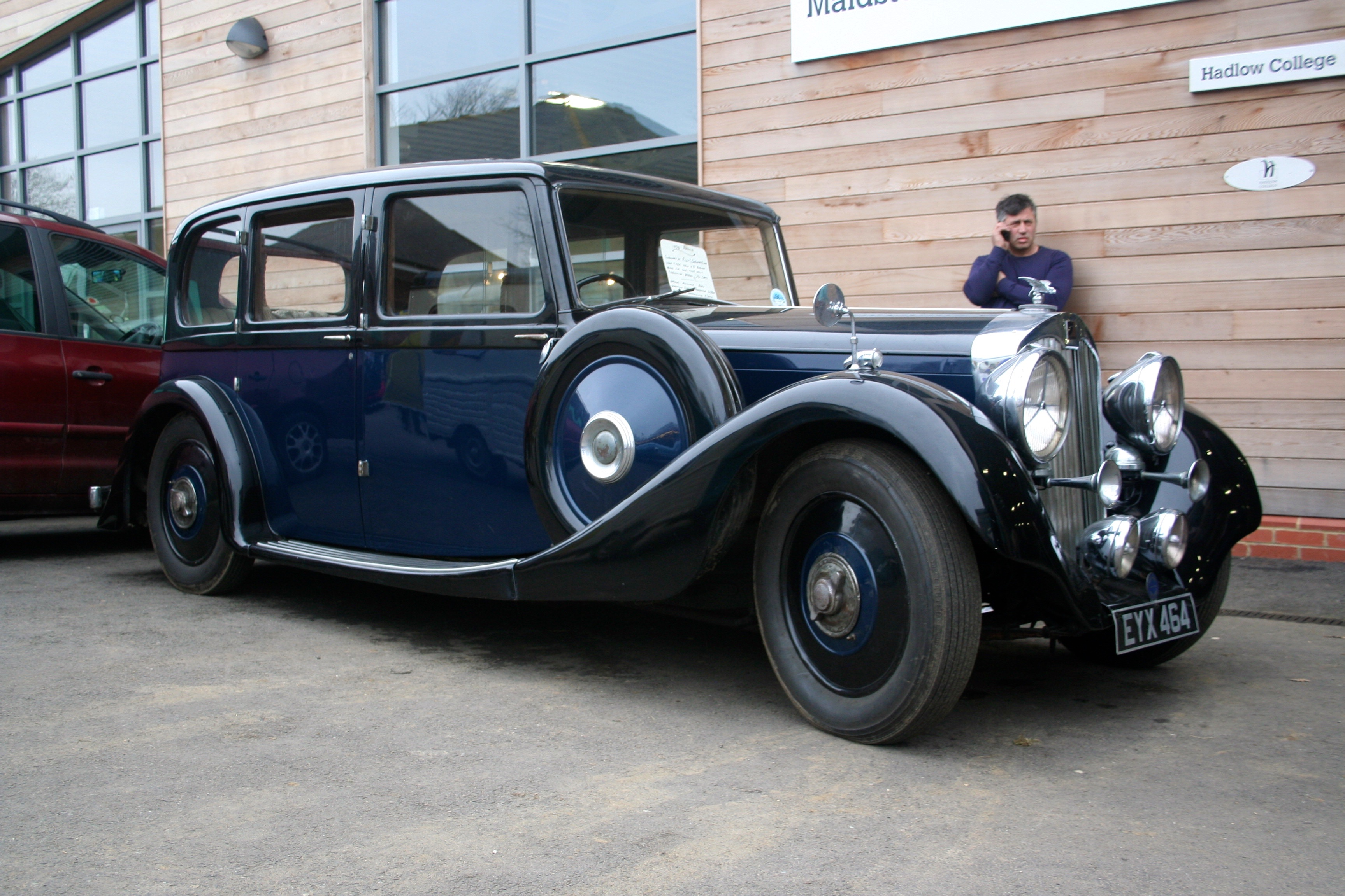 1938 Autovia limousin (DVLA) first registered 23 September 1938, 3445 cc South East Bus Festival and Heritage Transport Show 28 March 2015